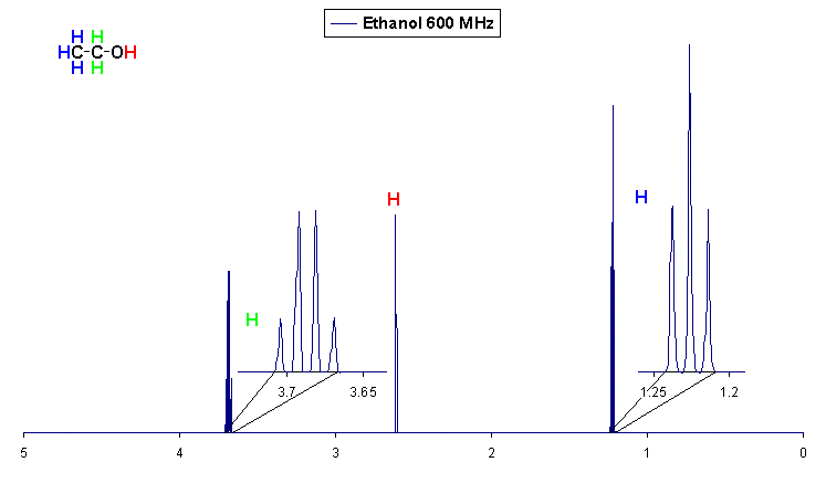 1H-NMR spectrum of Ethanol, calculated on base of the numbers present at on novembre, 14 2009. The graph is calculated in Excel. TMS=0 at 600 MHz. Methyl and methylene signals shown enlarged.